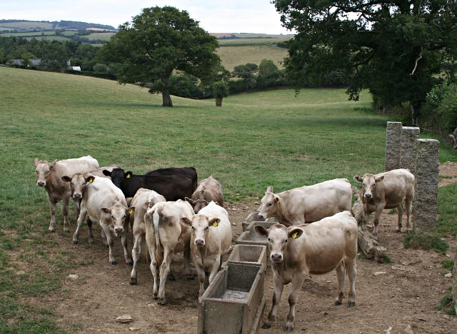 Cattle Expecting Feed. It seems the feed troughs are empty. Unfortunately the photographer was not carrying anything to put in them.